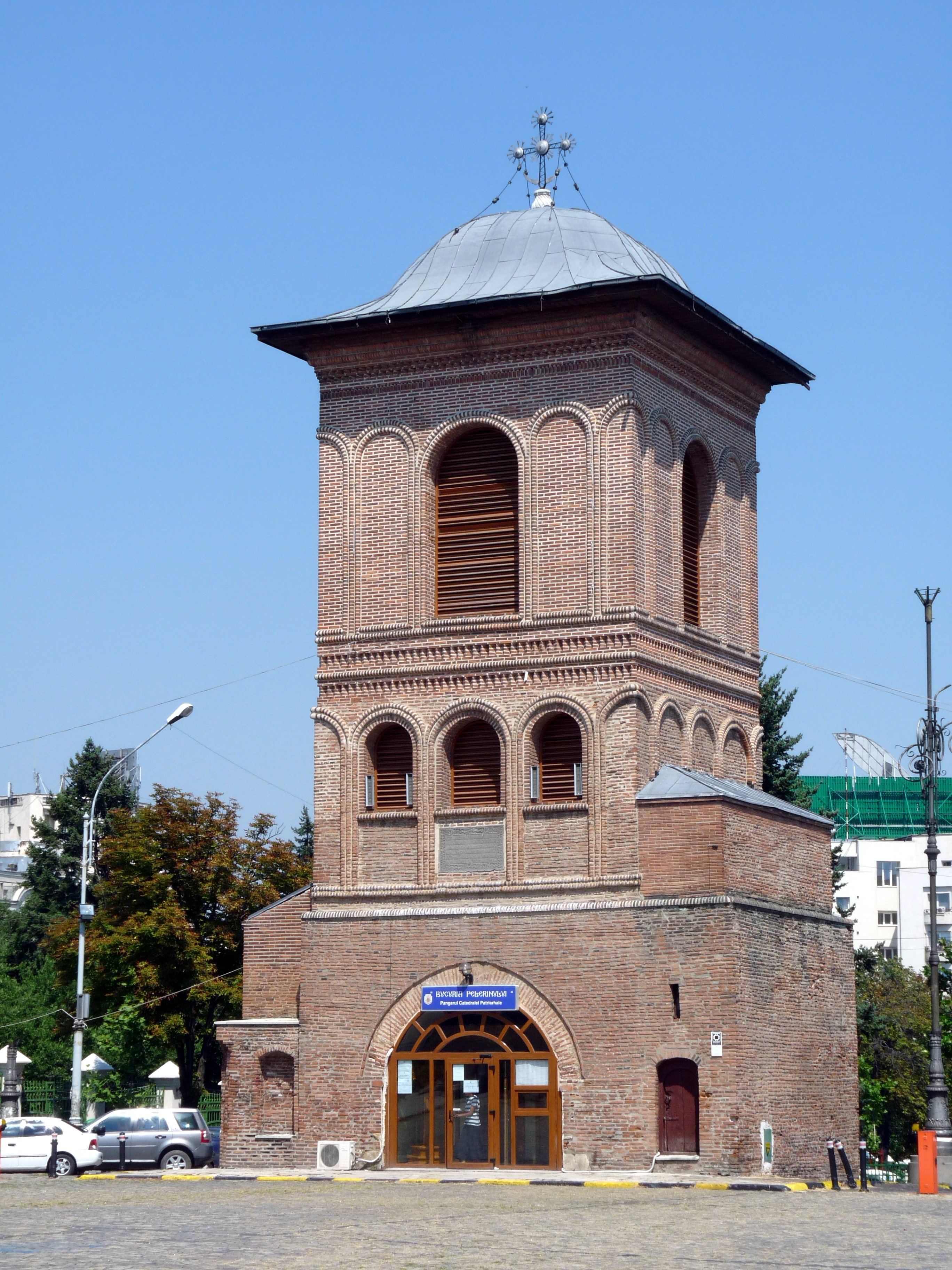 Belfry, Romanian Orthodox Patriarchy compound, Bucharest, RomaniaRomână: Turn clopotniţă din complexul Patriarhiei Bisericii Ortodoxe Române, Bucureşti, România